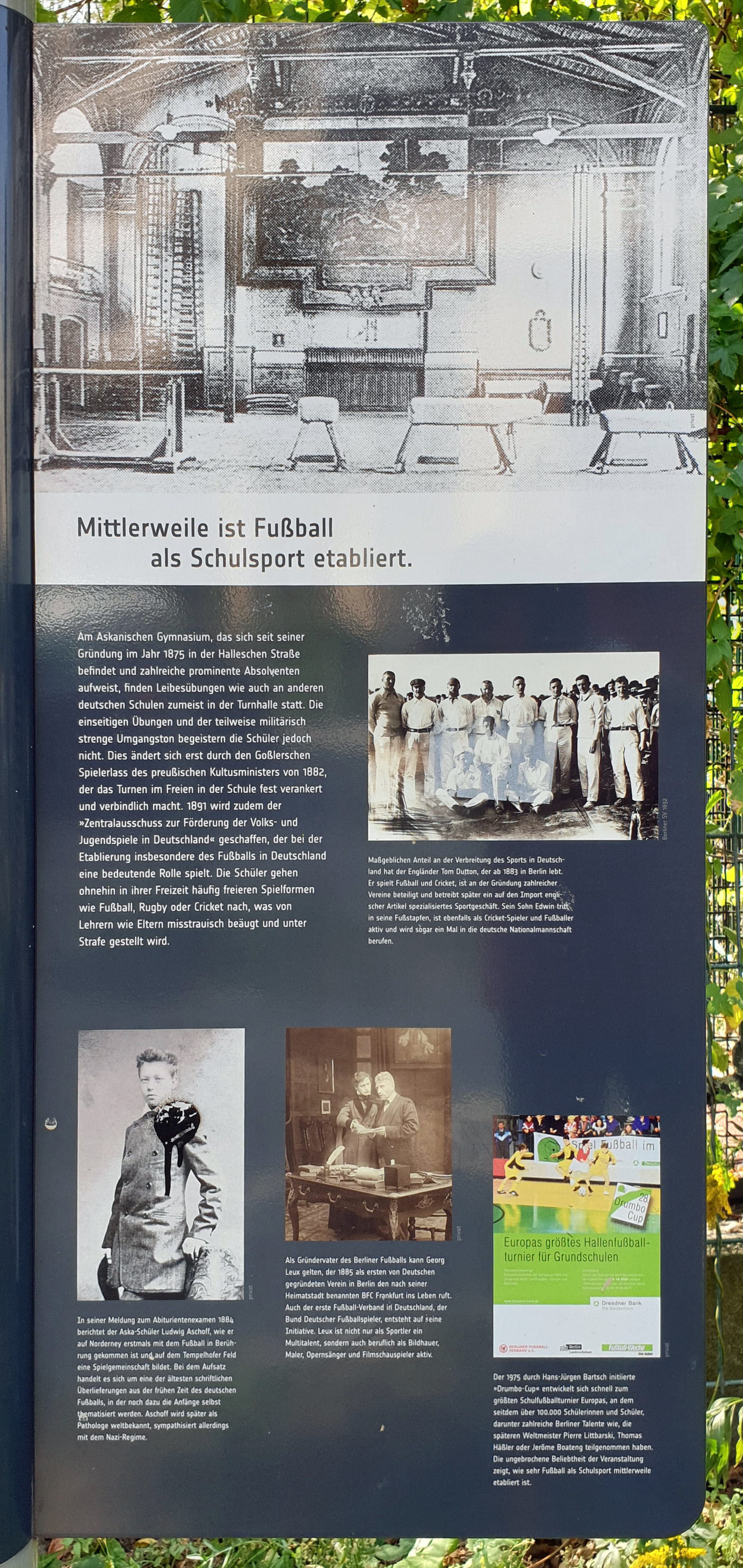 Memorial plaque, Askanisches Gymnasium, Hallesche Straße 24, Berlin-Kreuzberg, Deutschland